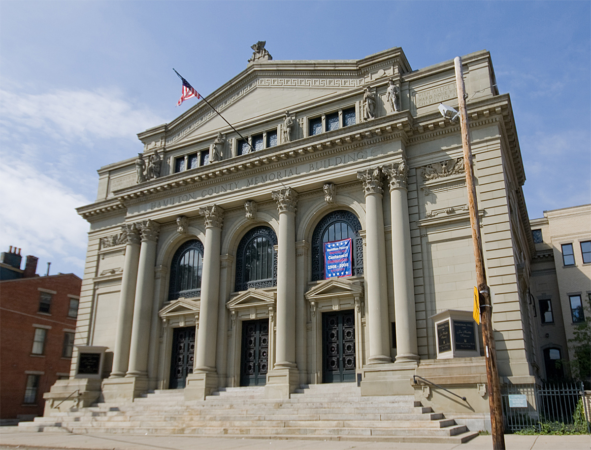 Hamilton County Memorial Building/American Classical Music Hall of Fame and Museum in Cincinnati, OH. Photo by Greg Hume